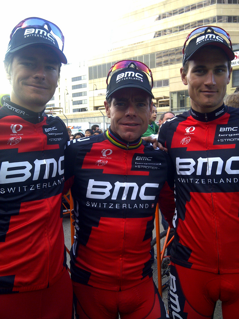 Jakub Novak together with Cadel Evans and Silvan Dillier during Tour of Alberta